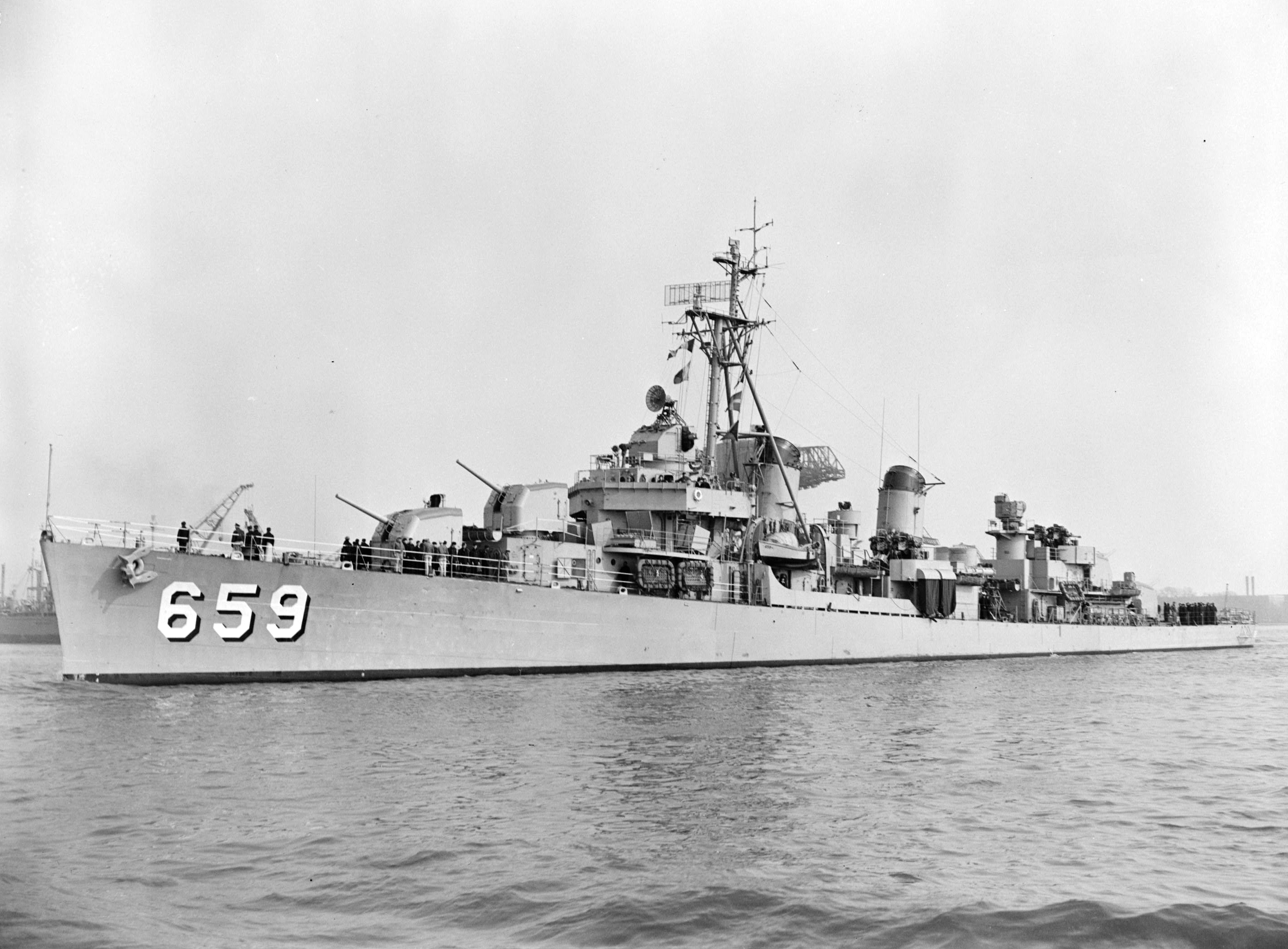 The U.S. Navy destroyer USS Dashiell (DD-659) off the Philadelphia Naval Shipyard, Pennsylvania (USA), circa in 1952.